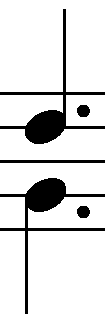 Demonstrates a special case in the notation of a Dotted note